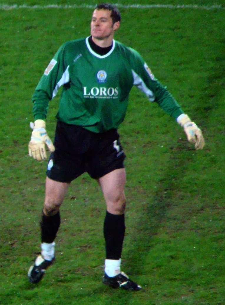 30/03/10 Cardiff V Leicester, Championship, Cardiff City Stadium, Cardiff, Wales